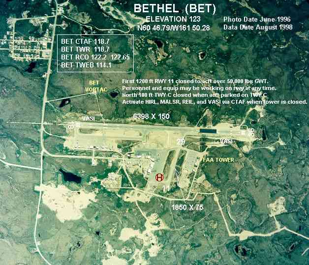 Annotated aerial photograph Bethel Airport (FAA: BET) in Bethel, Alaska, United States.